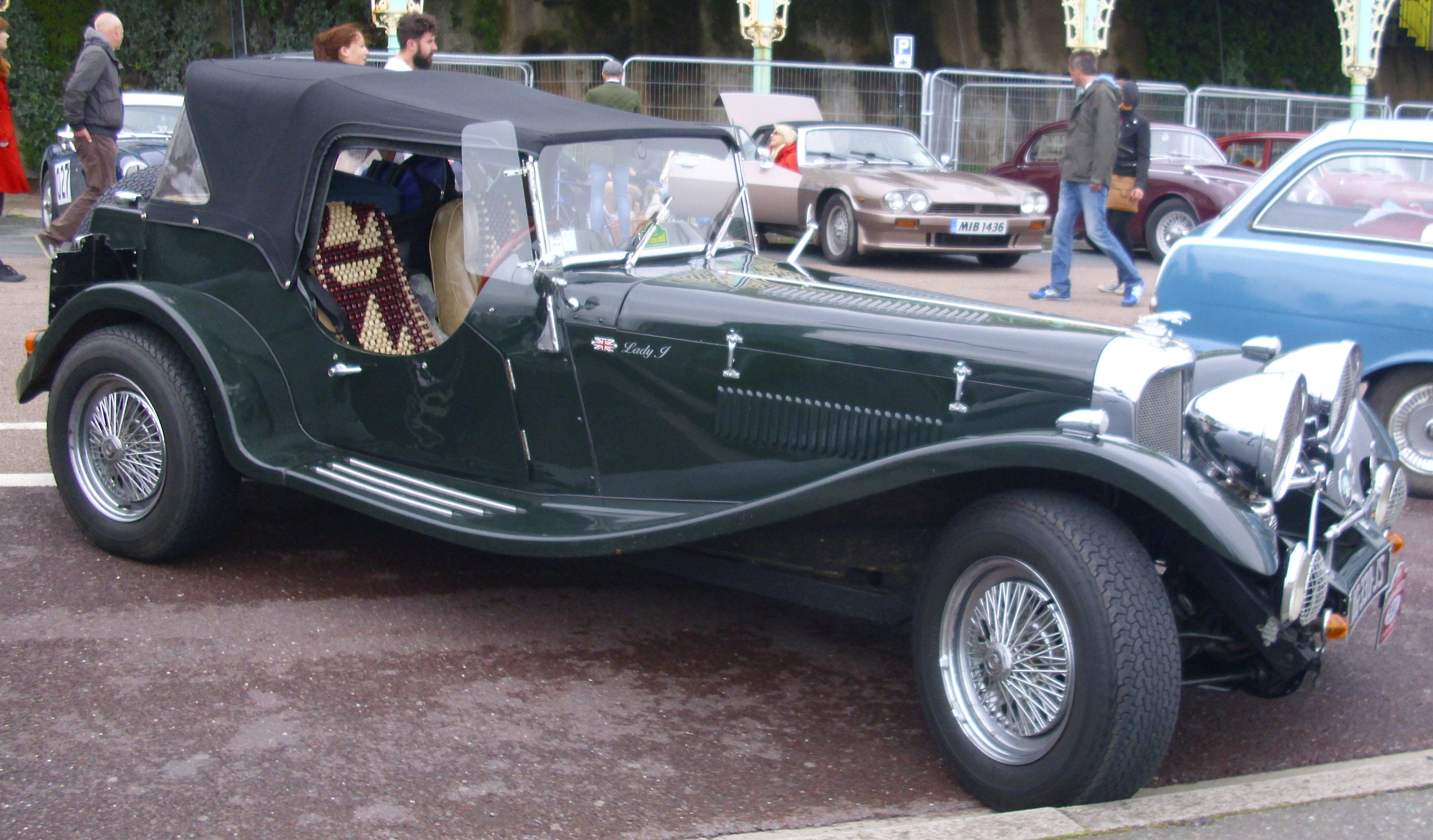 Carisma Century